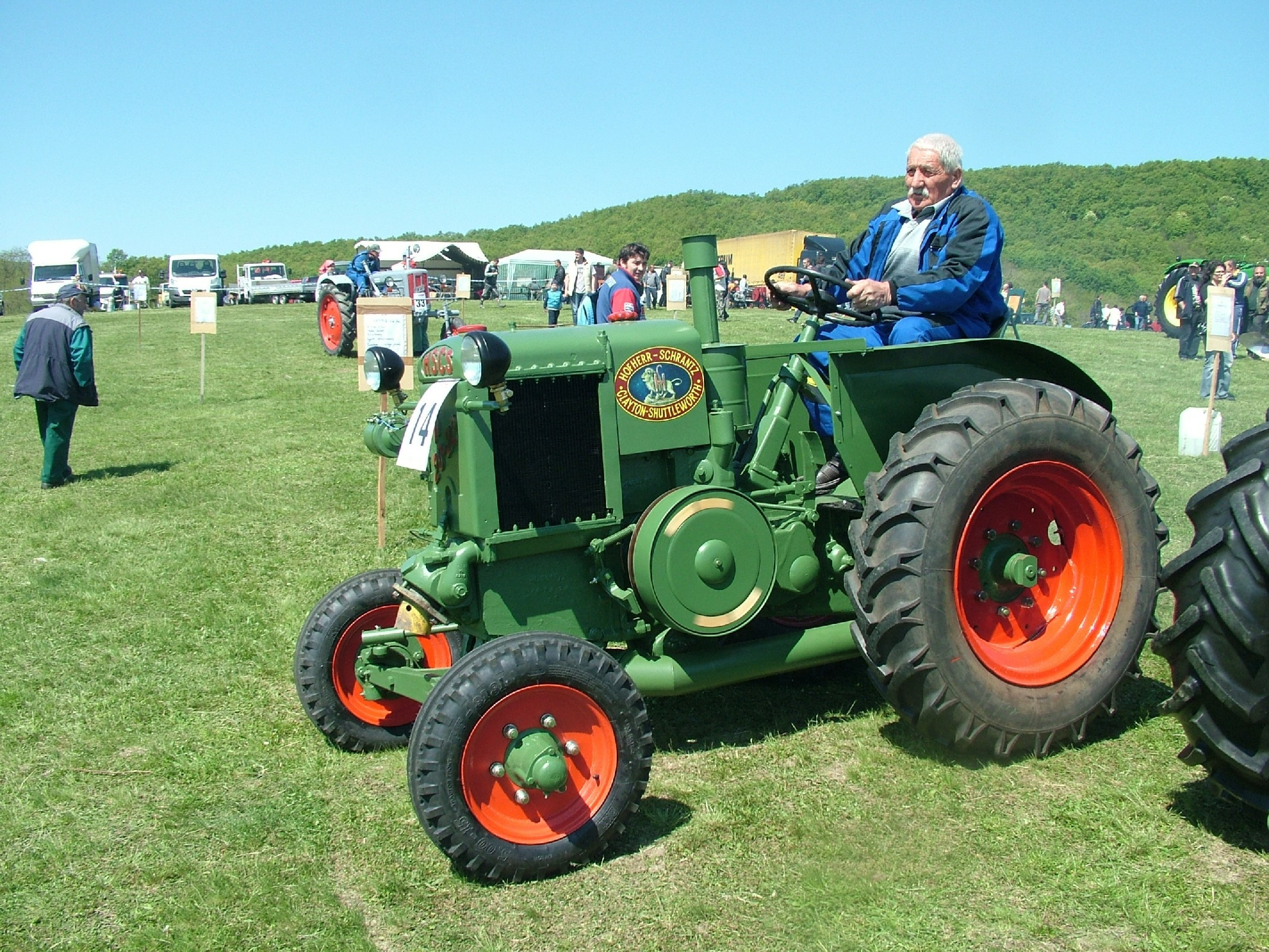 HSCS tractor at Traktormajális 2011, Bokor, Hungary